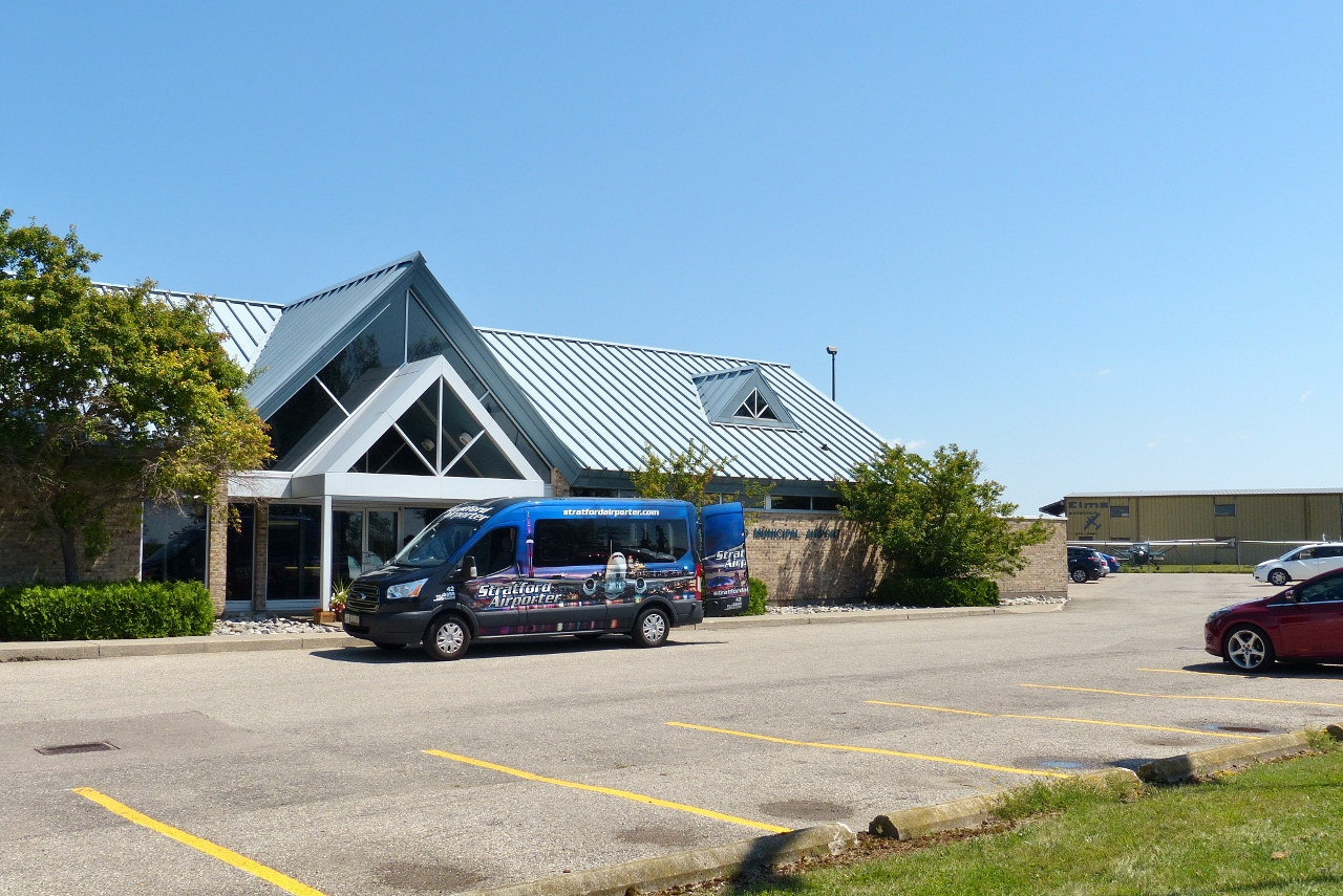 The terminal building at Stratford Municipal Airport, with the Toronto Pearson Airport Shuttle parked outside.